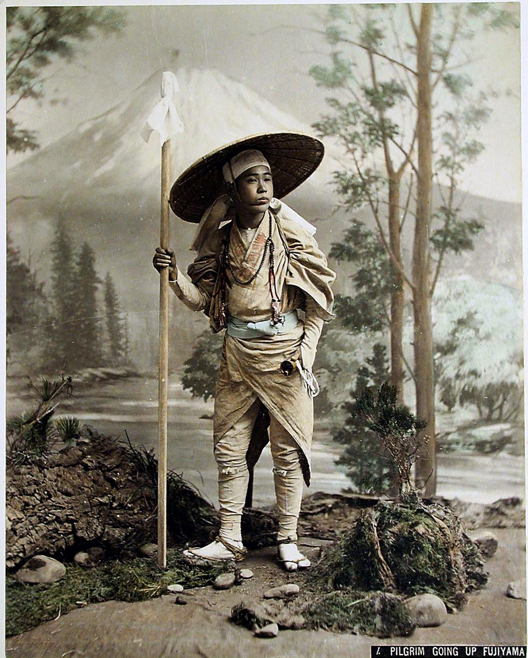 Mt.Fuji Pilgrim. Photo by Kusakabe Kimbei, 1880, Japan.